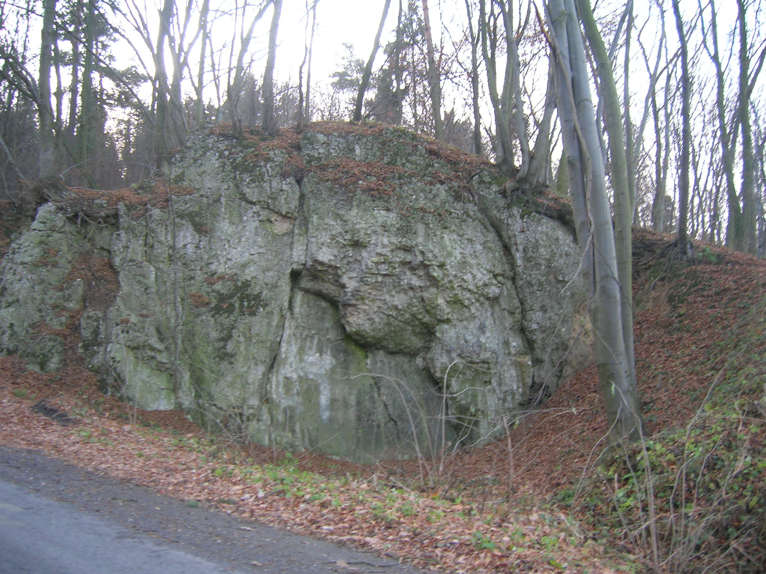 Wąwóz Kochanowski.Część północna (dolna)